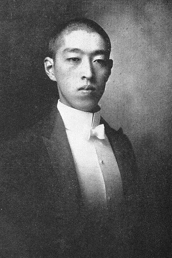 Susumu Matsura